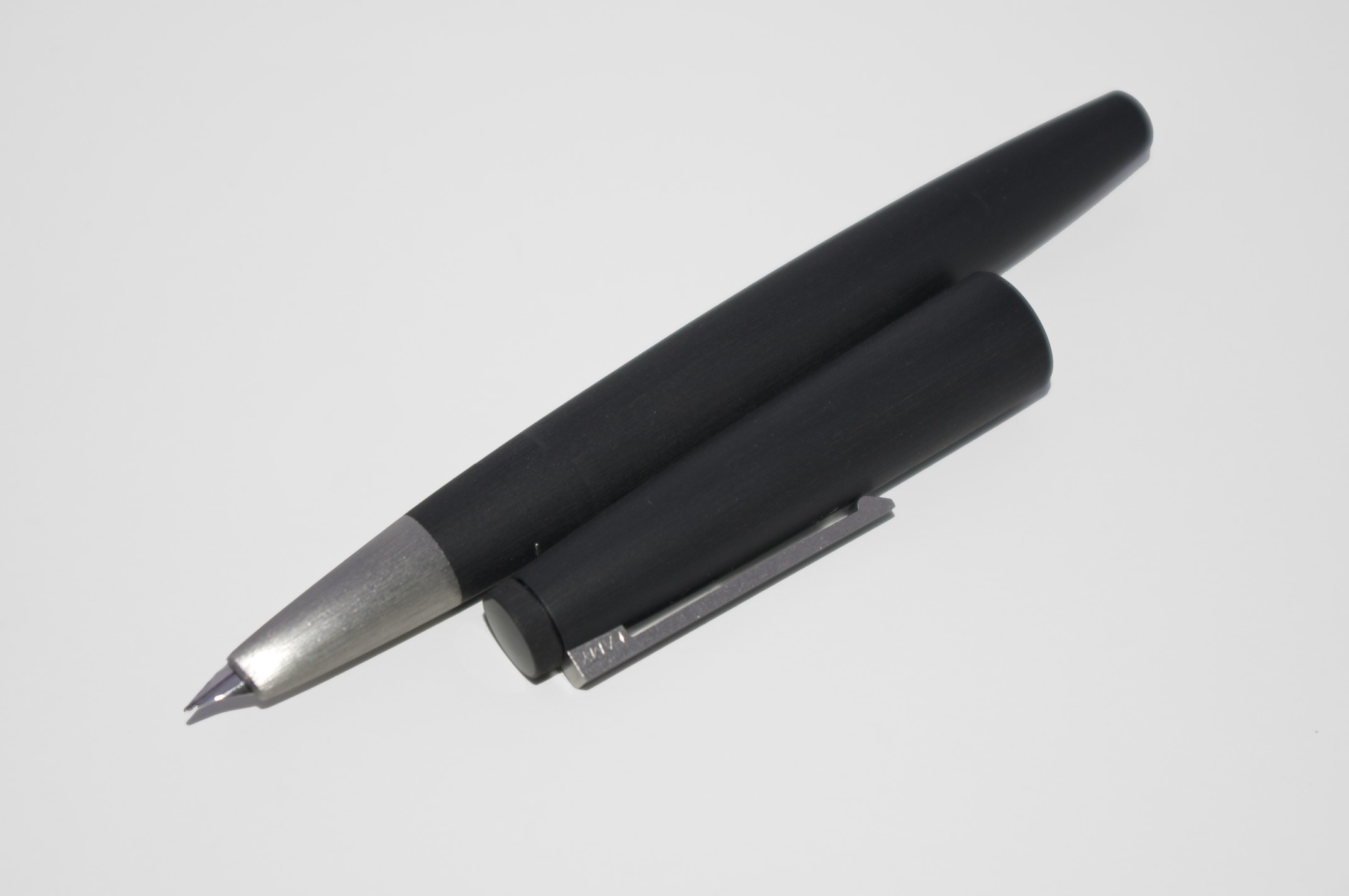 Lamy 2000 fountain pen with its cap. The black plastic used in the cap and pen body is Polycarbonate branded as Makrolon by Bayer.